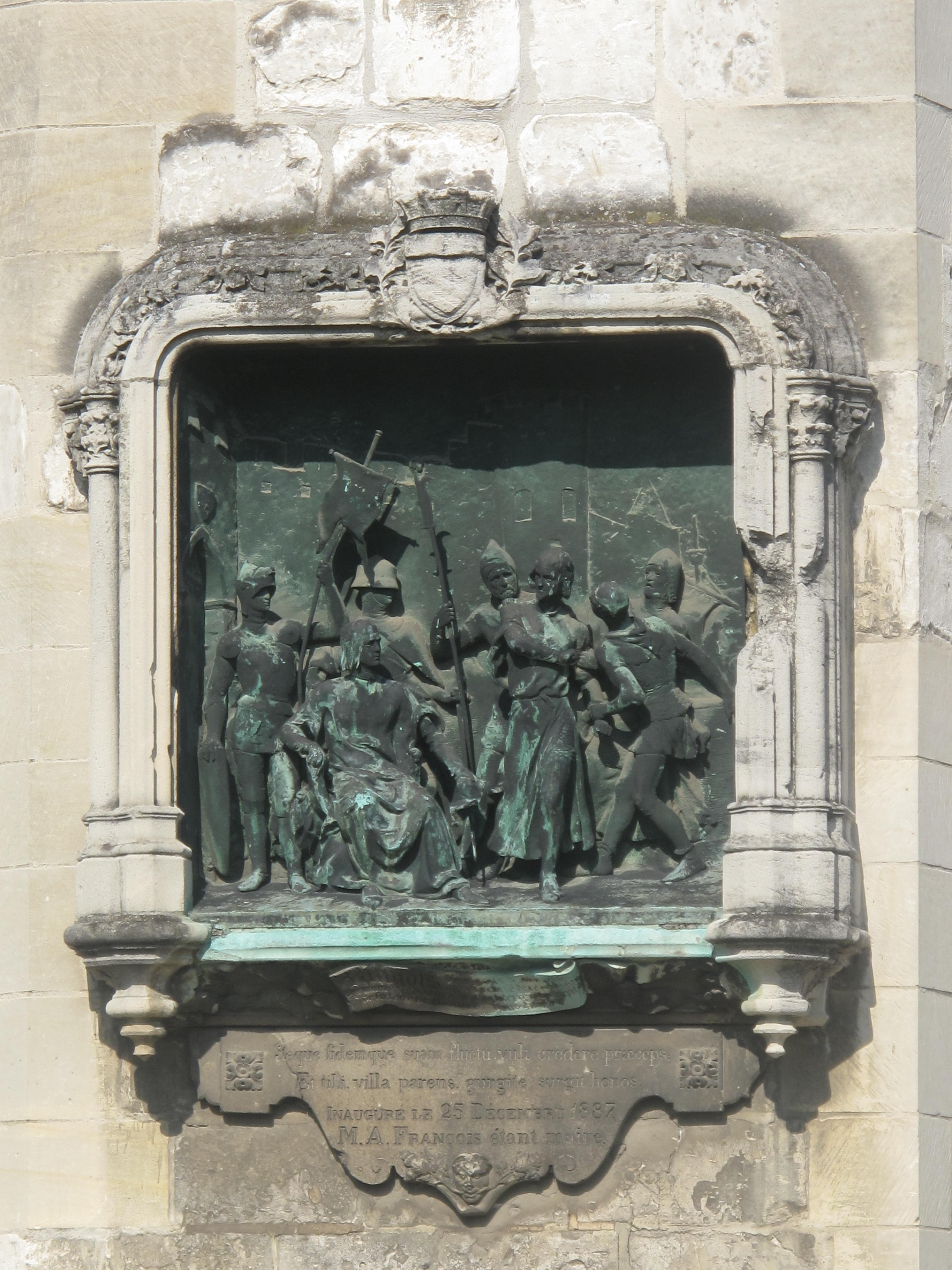 Enguerrand Ringois death (1887), Bronze relief by Emmanuel Fontaine on the belfry of Abbeville, France)